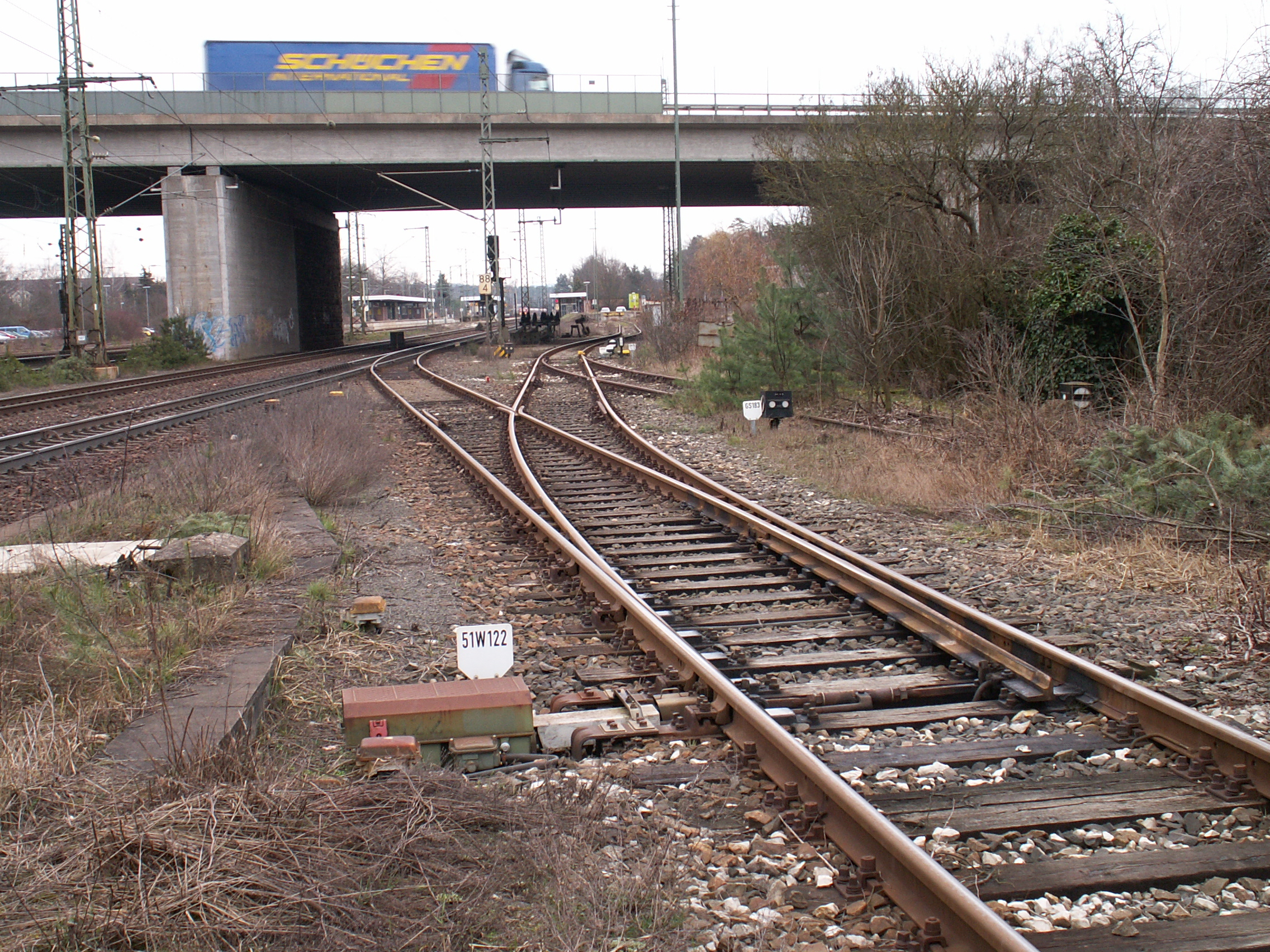 Track separation of the former railway line Feucht–Wendelstein (near Nuremberg, Germany) from the Nuremberg–Regensburg line, on the area of the Feucht train station. The remains of the former railway line end about 200 meters after the seperation at a buffer.